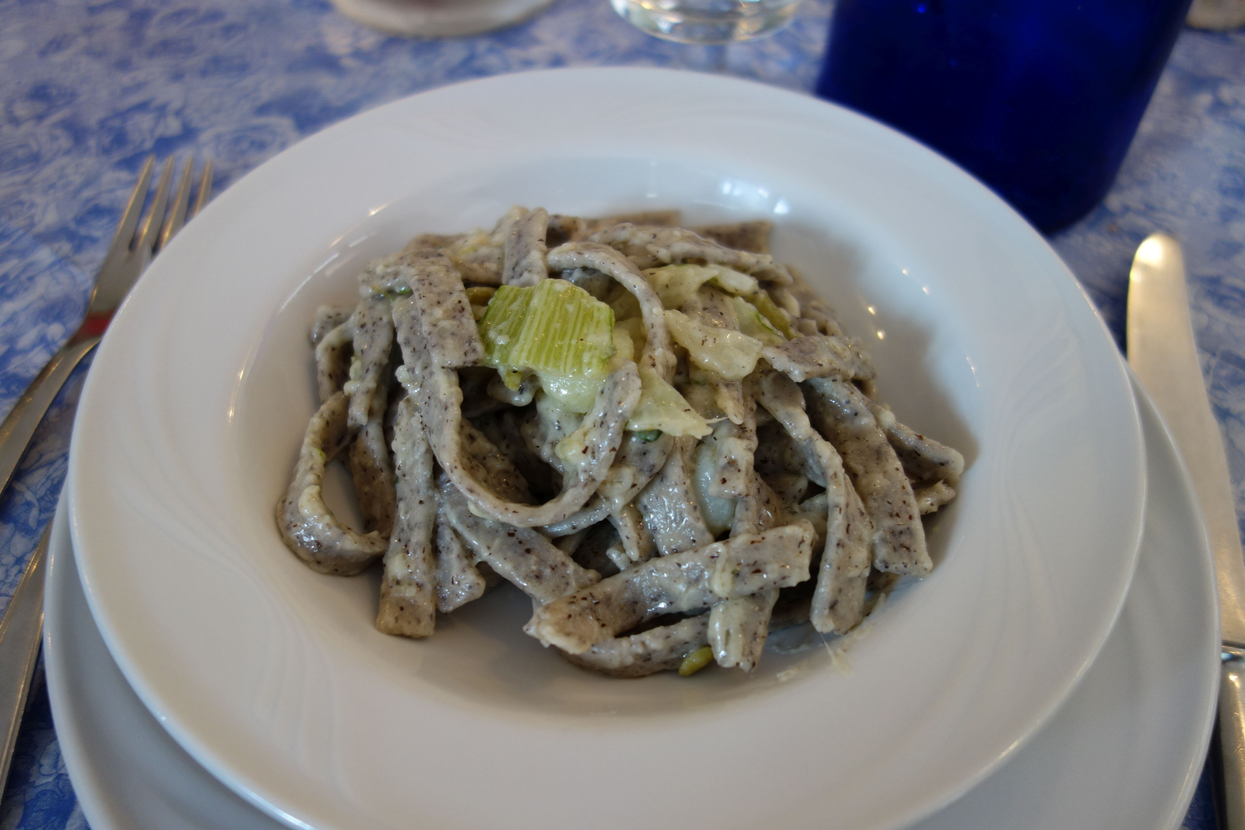 Pizzoccheri prepared at Albergo ristorante Centrale in Esino Lario, in the Province of Lecco.